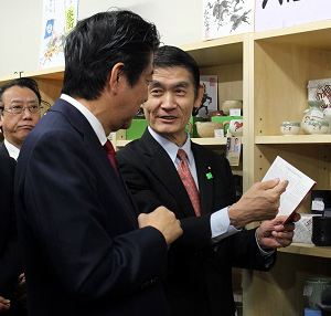 Shinzō Abe, Prime Minister, inspected the Machi Nami Marché with Masahiro Imamura, Minister for Reconstruction, and Hiroaki Nagasawa, Senior Vice-Minister for Reconstruction, in Namie Town, Futaba District, Fukushima Prefecture on April 8, 2017.